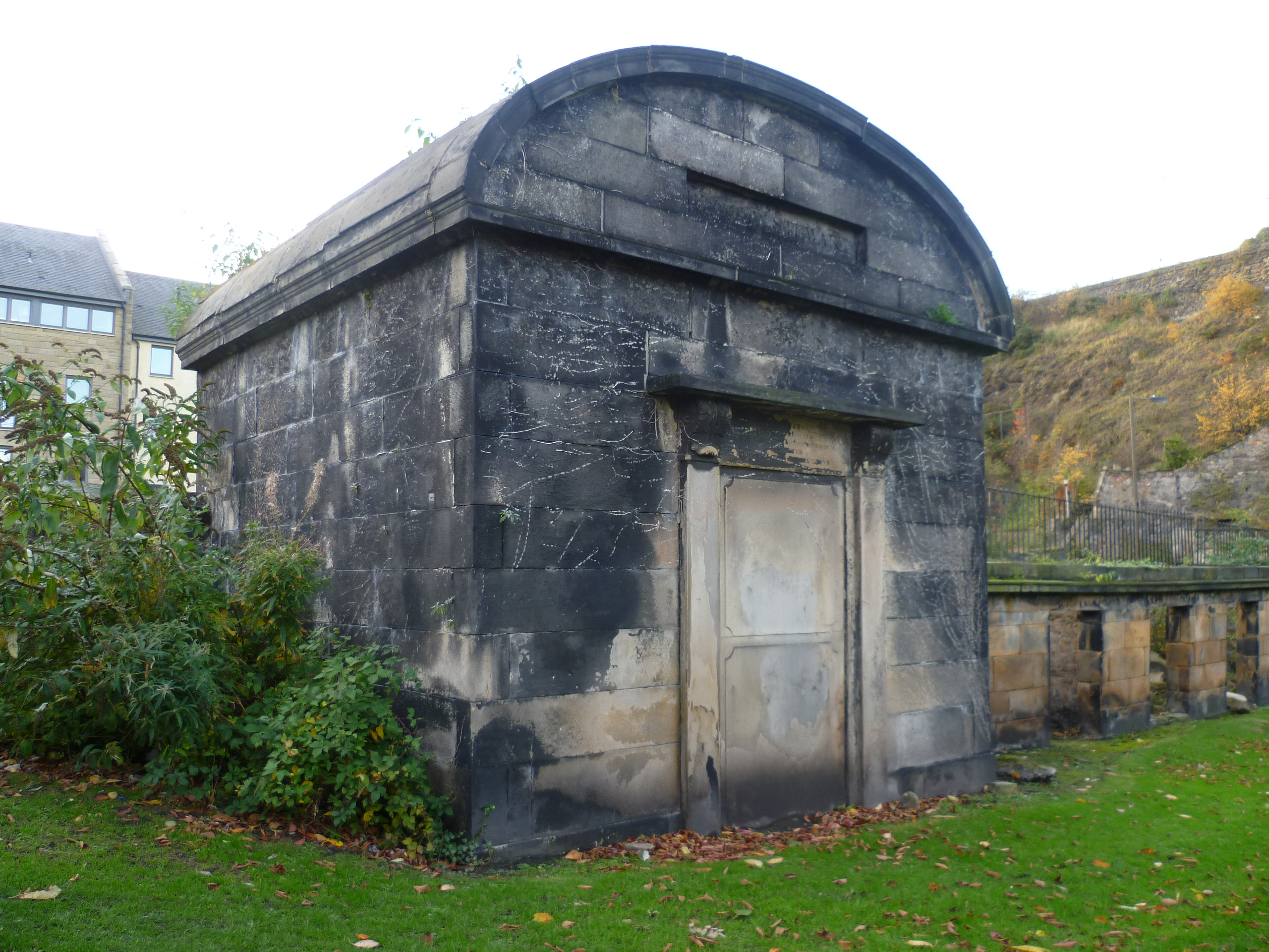 Mausoleum of Dugald Stewart, Canongate Kirkyard Edinburgh